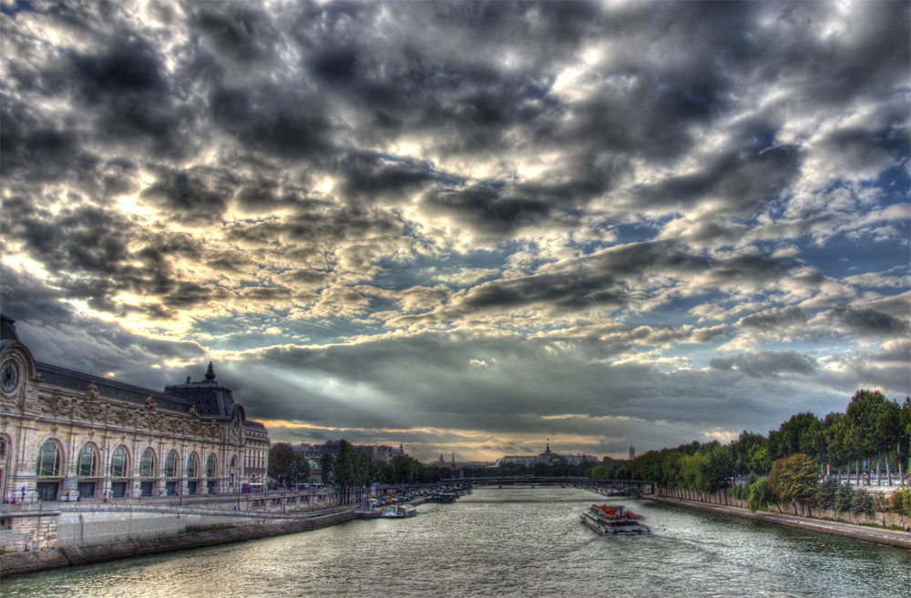 An HDR photograph of the Seine, taken from the Pont Royal. The Musée d'Orsay is in the left foreground, the Grand Palais in the right background, and the Passerelle Léopold-Sédar-Senghor crosses the Seine in the background.